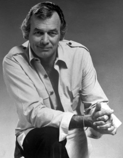 Publicity photo of David Janssen from 1974. It appears to be a publicity photo from the television program he was doing at the time, Harry-O.